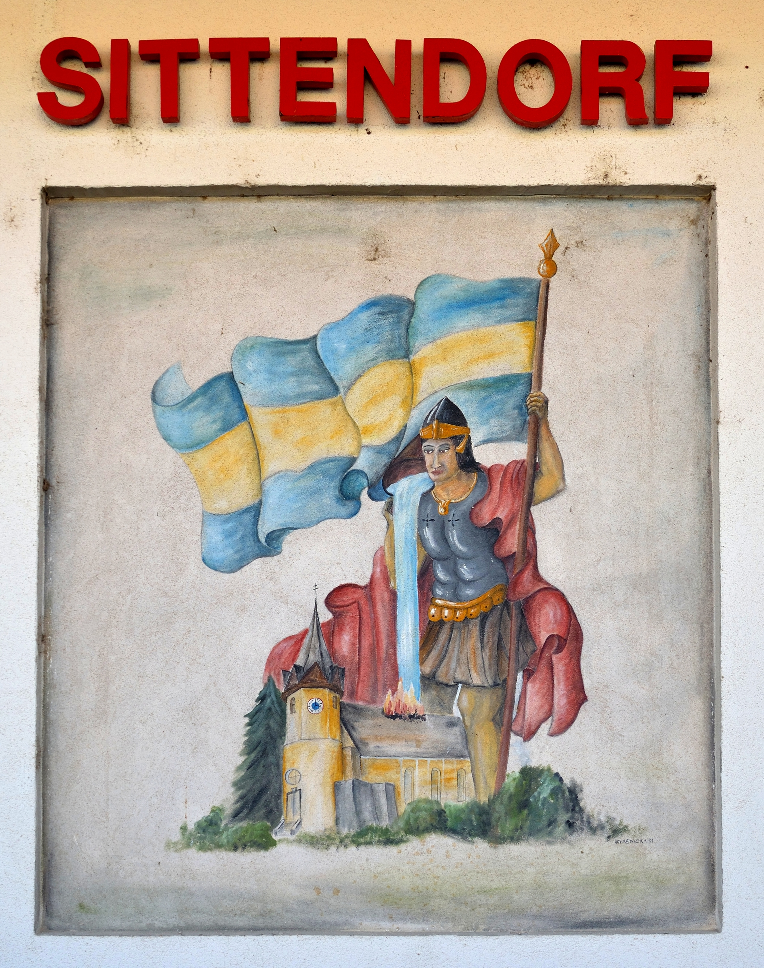 Painting of Saint Florian at the fire station in Sittendorf. Signed KVASNICKA 91.